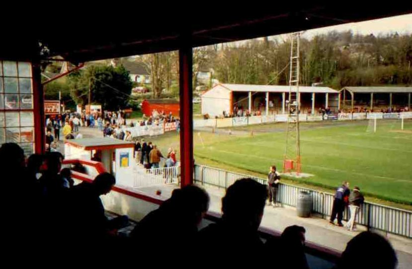 View of the Pilot Field from the main stand, before the current clubhouse was constructed.